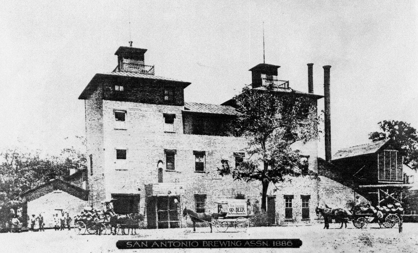 Original City Brewery (Behloradsky Brewery) in San Antonio, TX. Brewery was purchased by the San Antonio Brewing Association in 1883 and eventually became the Pearl Brewery.